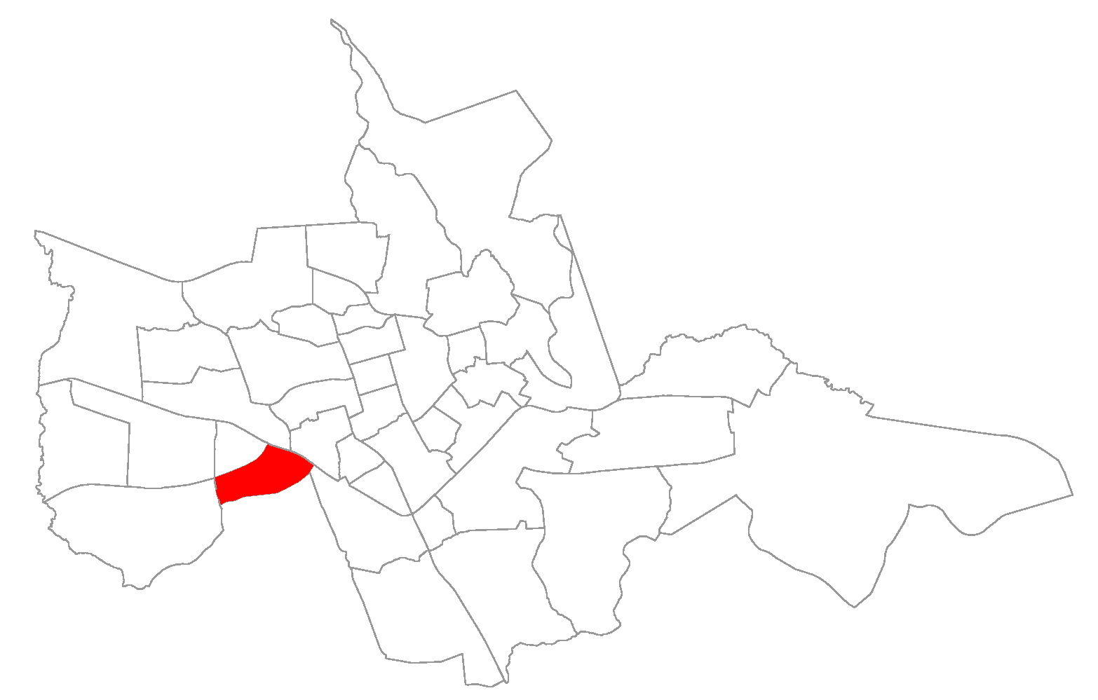 neighborhood/district of Santa Maria, Rio Grande do Sul